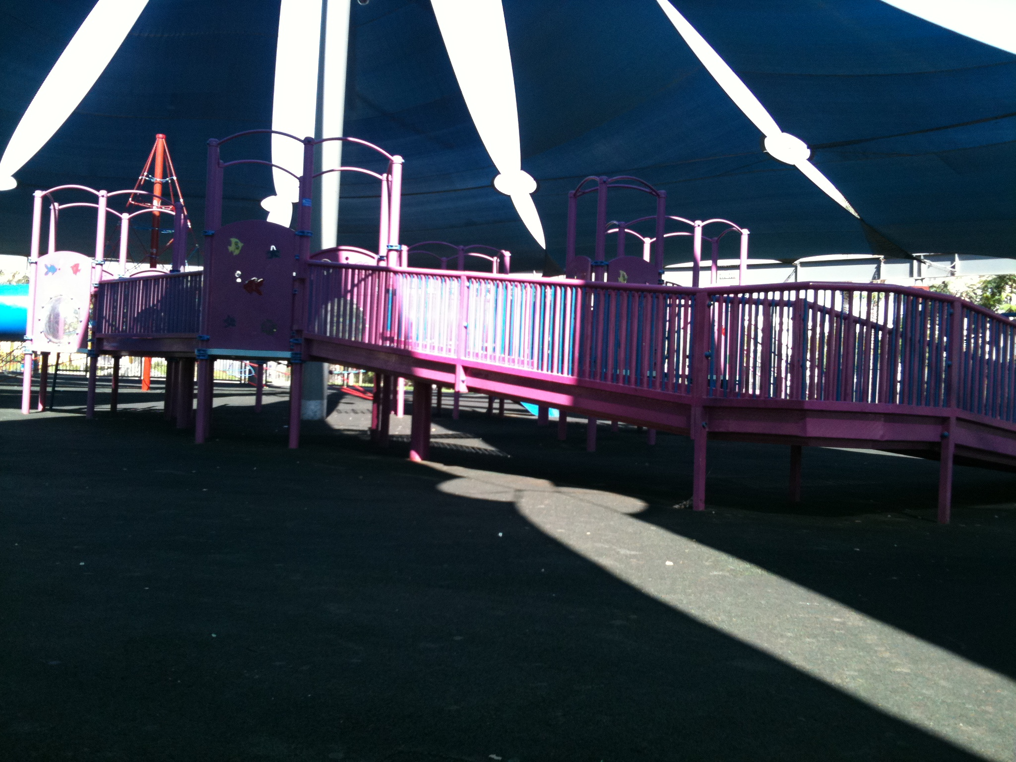 Wheelchair Ramp for slides, The Australian Solder Park, Beersheba